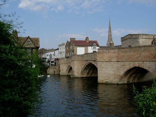 "Rather Than Send Them to St Ives" This is a shot of the 15-century bridge in St Ives. Its most notable feature is the Chapel in the middle; this is one of only four surviving medieval bridge chapels in England. Before WW2 it had a second storey which is now gone. St Ives formerly of Huntingdonshire (now Cambs) is proud of its connections with Oliver Cromwell names of Shops and Pubs alluding to him are dotted all over the town. Could this be why Rupert Brook was so disparaging about the place?